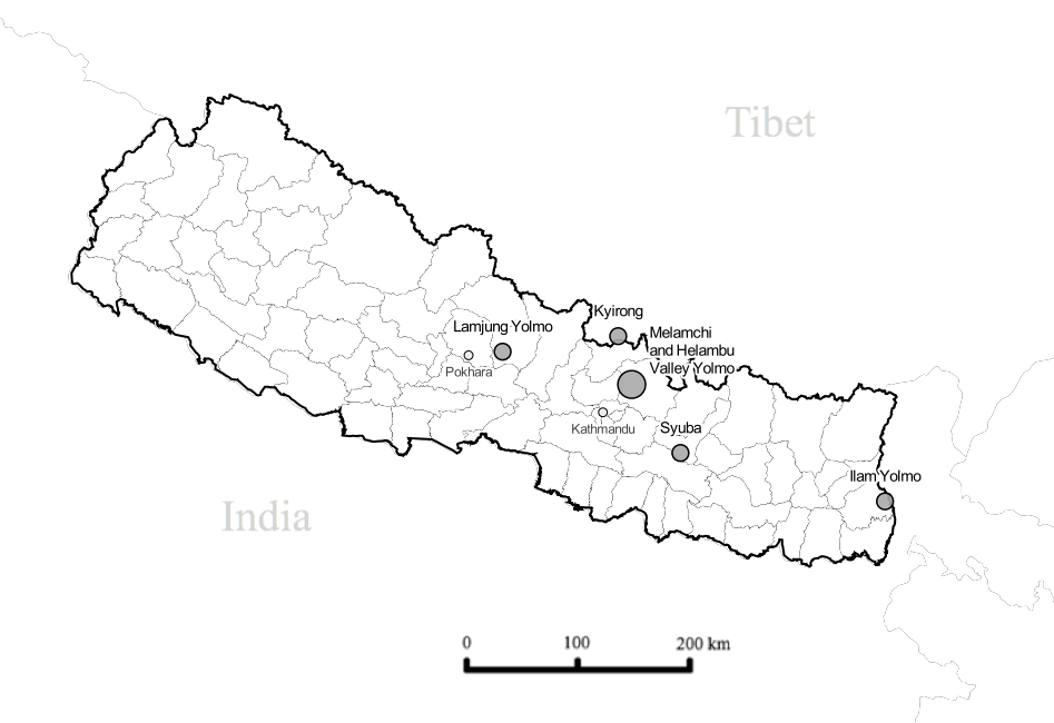 A map of Nepal with the major locations Yolmo is spoken